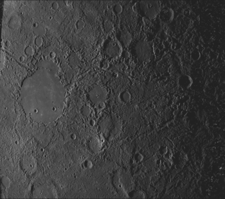 Weird terrain best describes this hilly, lineated region of Mercury. Scientists note that this area is at the antipodal point to the large Caloris basin. The shock wave produced by the Caloris impact may have been reflected and focused to the antipodal point, thus jumbling the crust and breaking it into a series of complex blocks. The area covered is about 800 km (497 mi) on a side.The crater at left is now known as Petrarch. This is based on Mariner 10 image 27299.